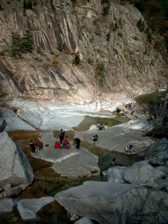 Biryong in Seorak-san national park, Korea; photographed myself.